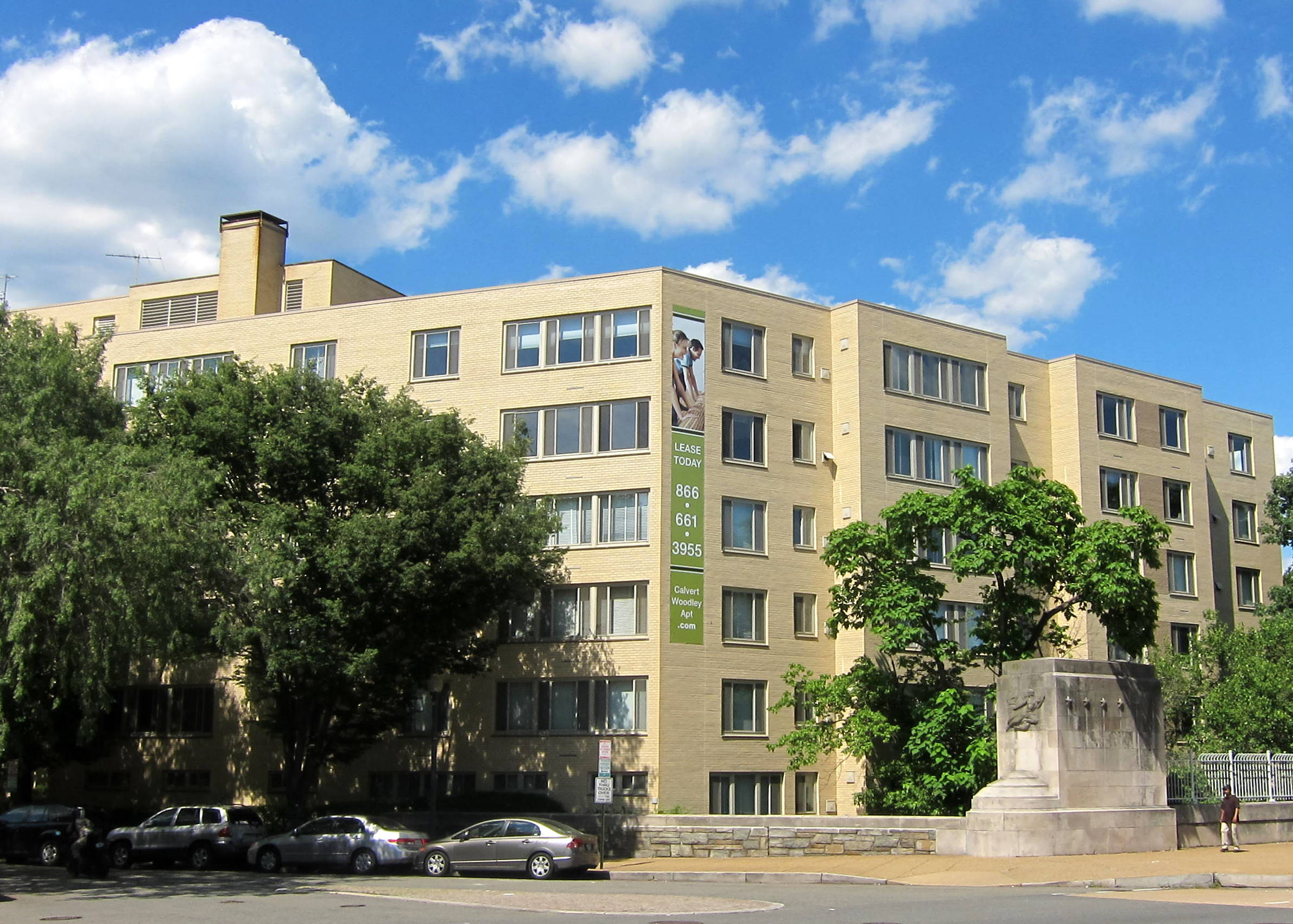 The Calvert Woodley located at 2601 Woodley Place, N.W., in the Woodley Park neighborhood of Washington, D.C. The 130-unit modernist apartment building was constructed around 1948 by real estate developer Charles E. Smith. Former occupants include Luther H. Hodges and Tip O'Neill.